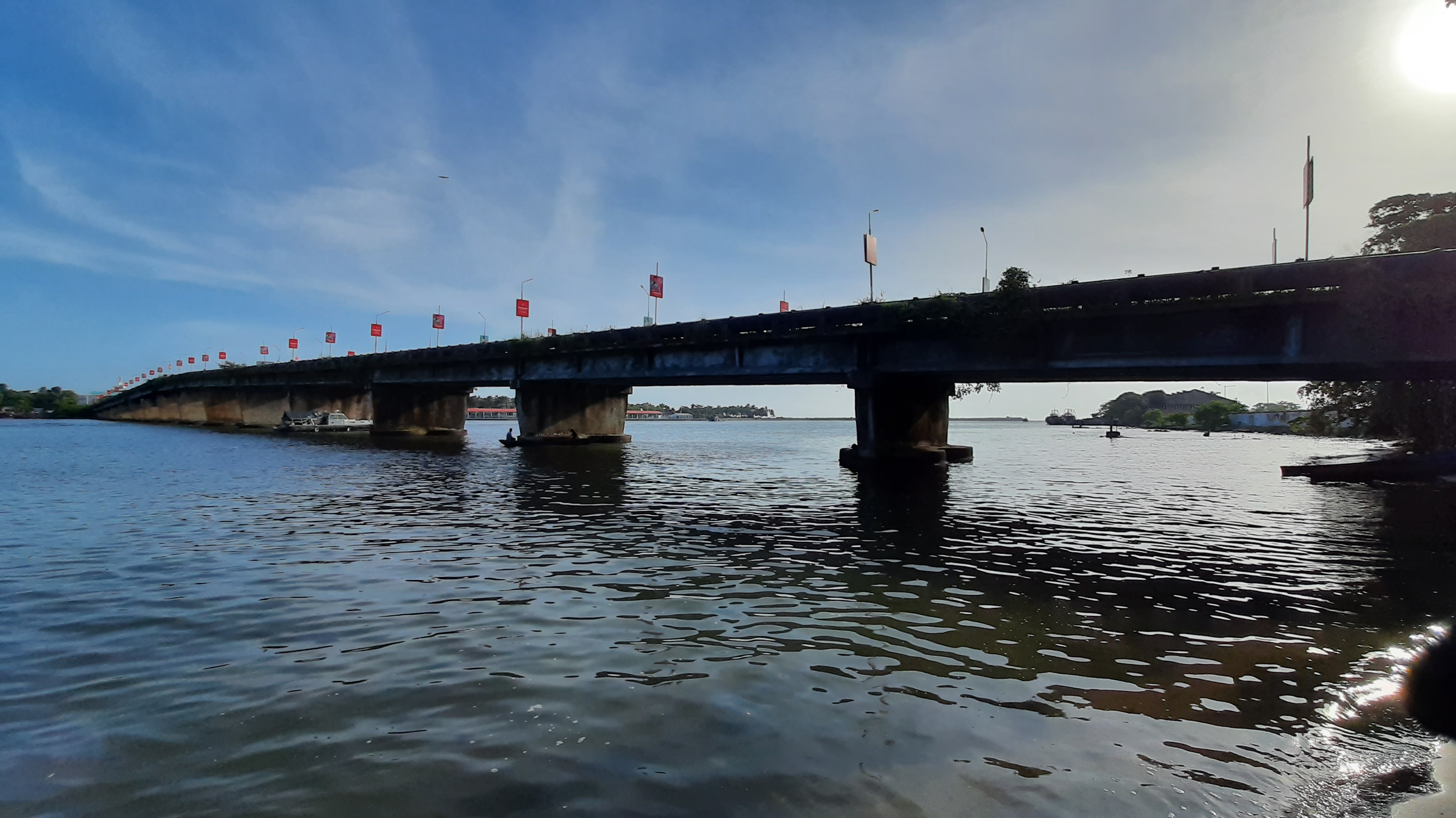 Neendakara bridge, Kollam